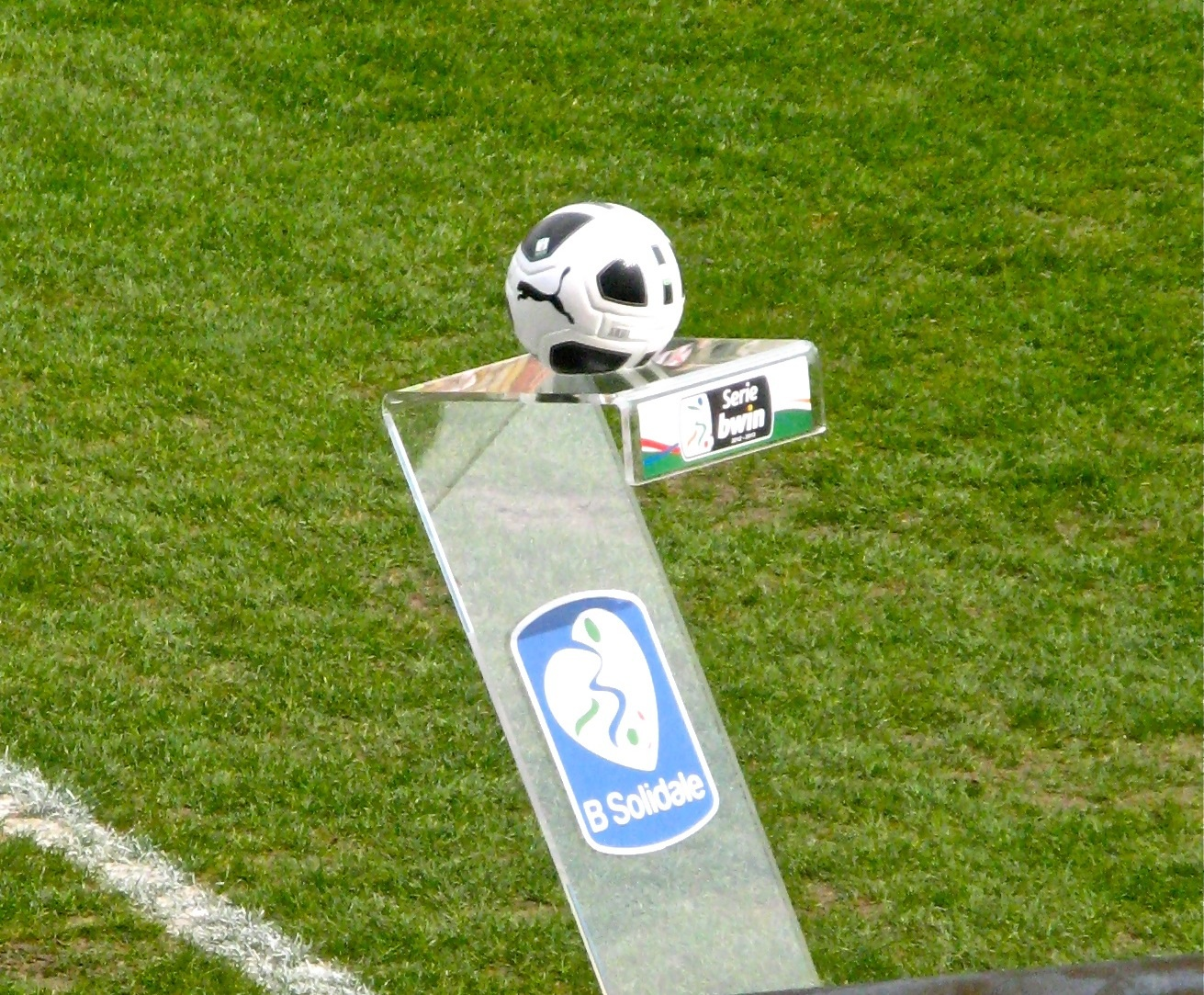 Vicenza (Italy), "Romeo Menti" Stadium, April 13, 2013. The official Puma AG ball for the Italian Championship Serie B — referred as the "Serie bwin" for sponsorship reasons —, 2012–13 edition.